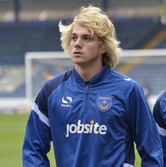 Jack Whatmough, Portsmouth Football club